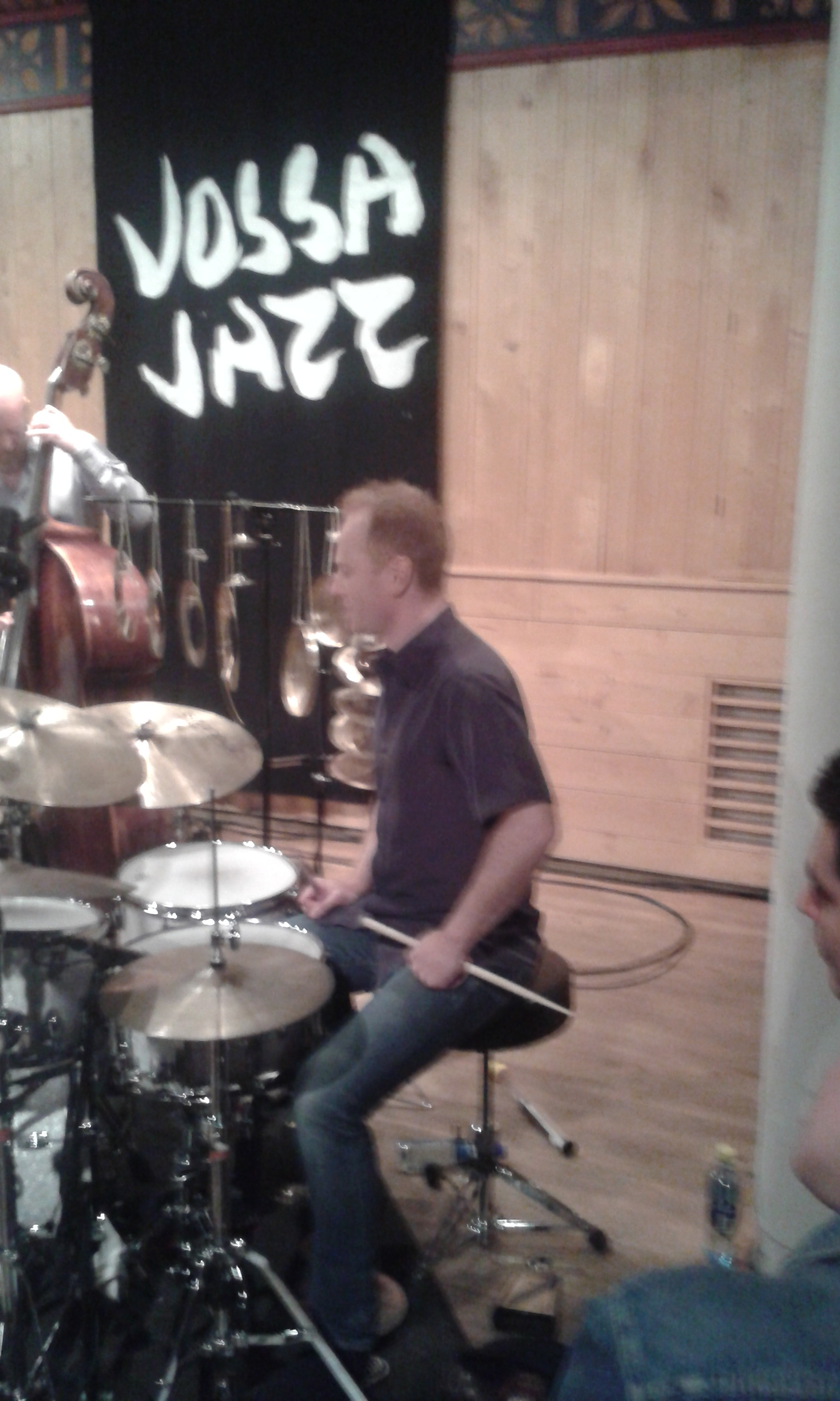 Håkon Mjåset Johansen with Eivind Austad Trio at Vossajazz 2016.